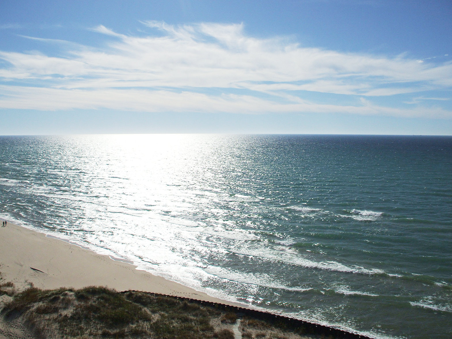 East coast of Lake Michigan looking west from Big Sable Point lighthouse.